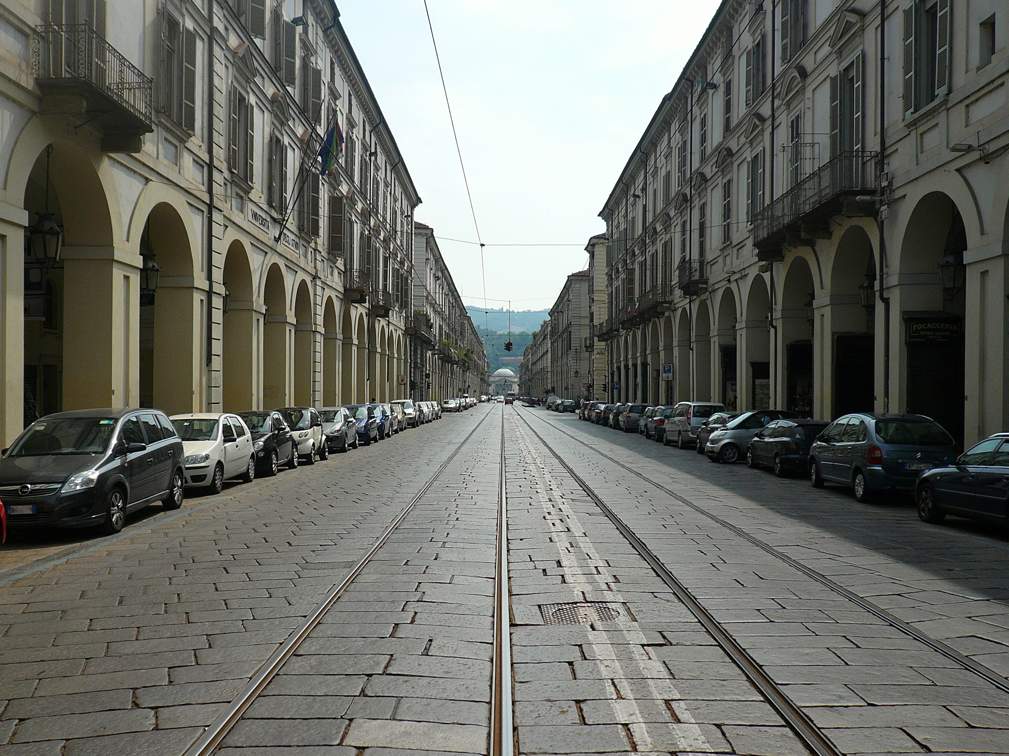 Via Po, Turin